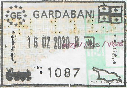 Georgian exit stamp in a Polish passport, issued on the railway border with Azerbaijan in Gardabani. Underneath on the right Armenian old style (2017) exit stamp.